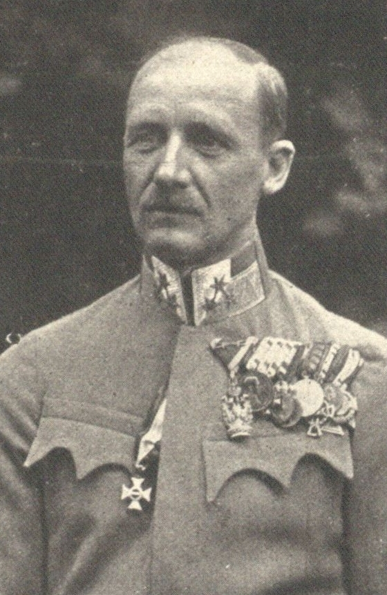 Anton Lehár with the Military Order of Maria Theresa, 1918